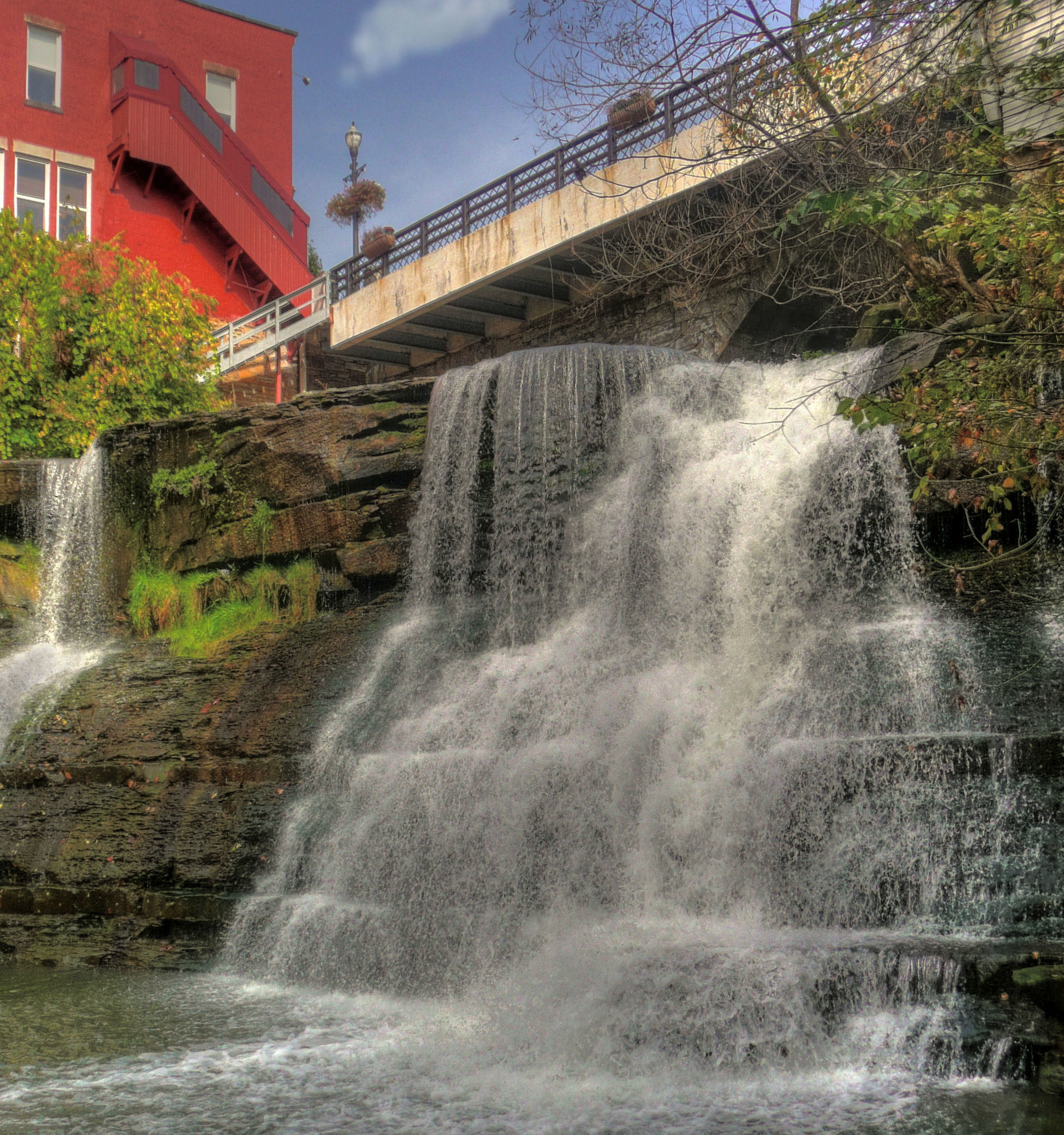 In the village of Chagrin Falls, Ohio